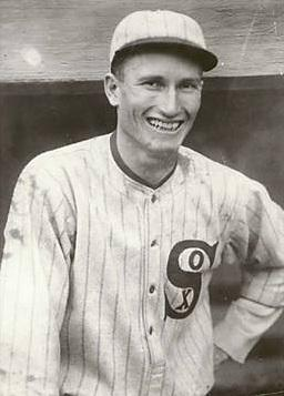 1919 photograph of Fred McMullin, public domain.